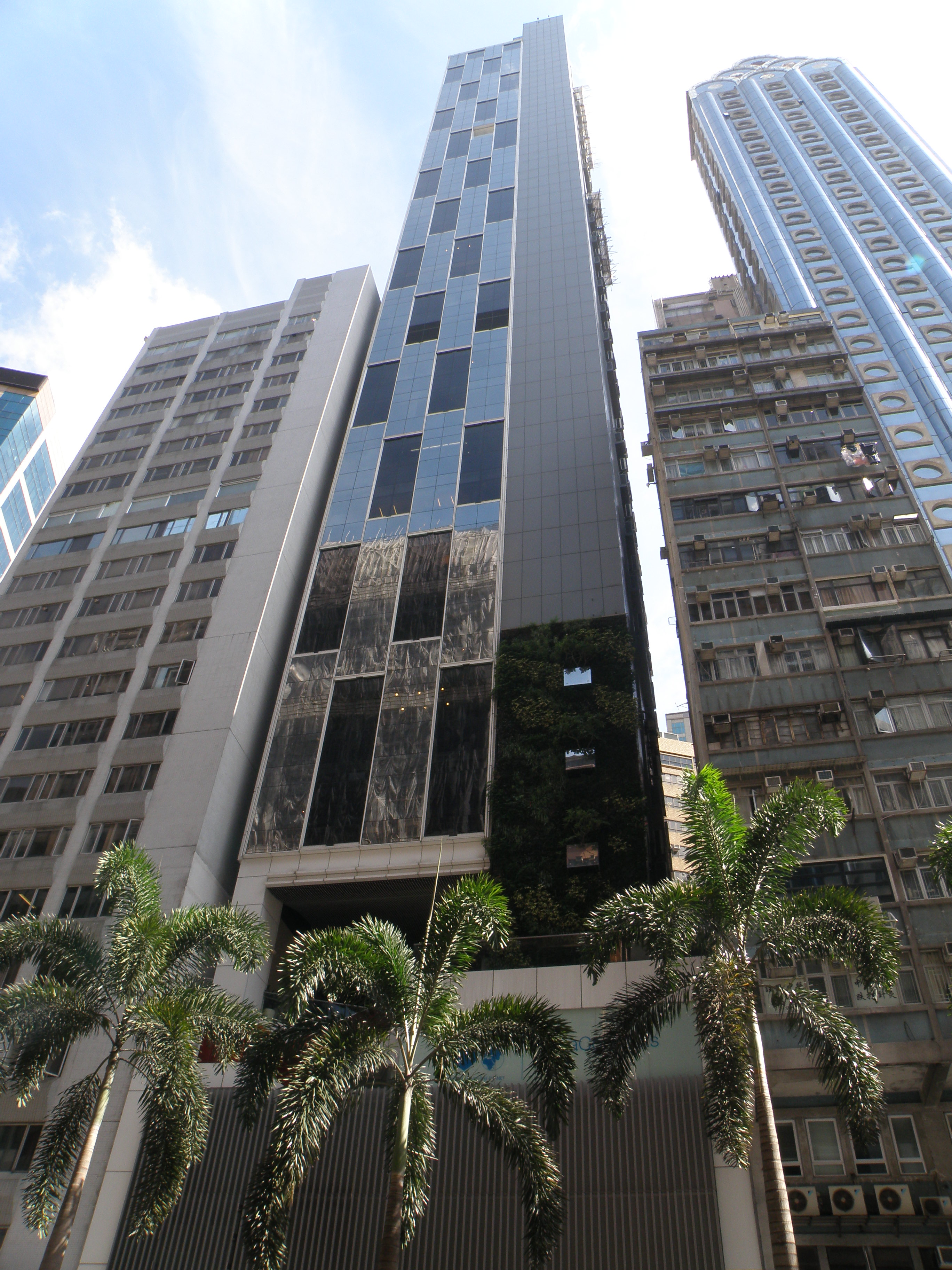 The Hennessy in Wan Chai, Hong Kong.